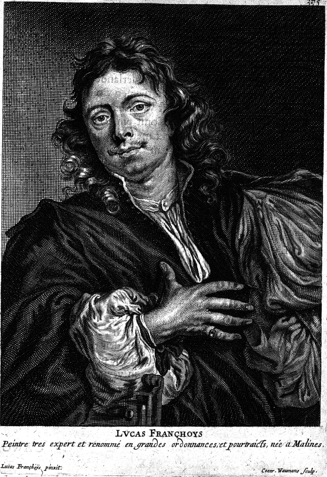 Portrait of Lucas Franchoys, engraved by Coenraet Waumans after a self-portrait of Lucas Franchoys, published in Het Gulden Cabinet, the collection of painter biographies written by Cornelis de Bie and published in Antwerp by publisher-engraver Jan Meyssens, 1662 Lucas Franchoys p 375